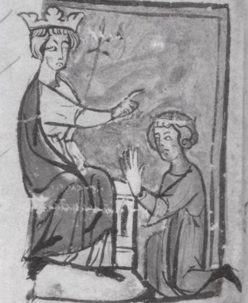 Edward I creating his son, the later Edward II, prince of Wales, 1301. Text reads "Eduuardus factus est princeps Wallie" (Edward is made prince of Wales).